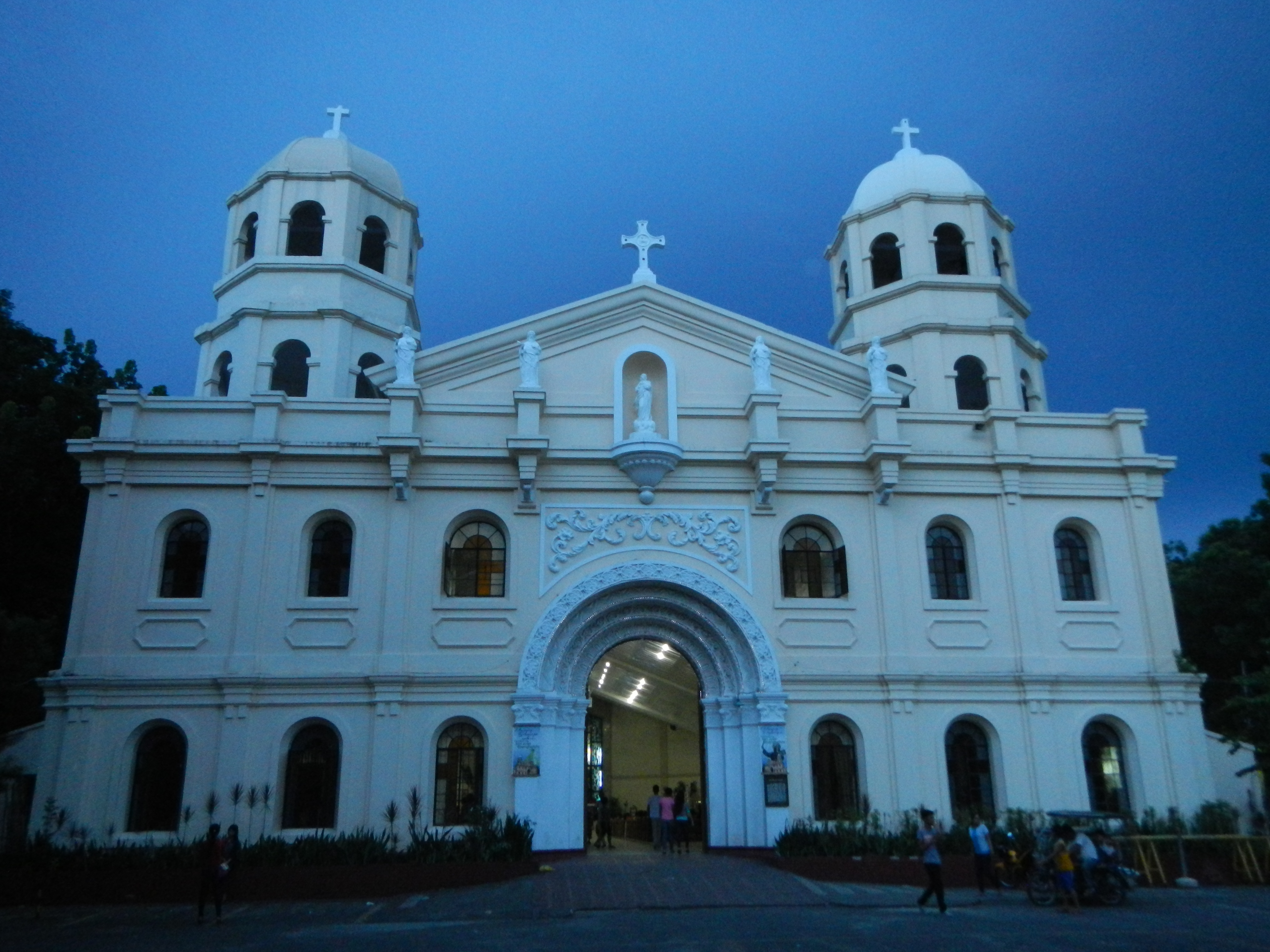 1881, Saint John the Evangelist Parish Church of Tanauan [1] Roman Catholic Archdiocese of Lipa[2] [3] Coordinates: 14°5'9"N 121°9'13"E - Vicariate VI: Vicariate of the Most Holy Rosary - Saint John the Evangelist is its patron & its main church is the Saint John the Evangelist Parish Church of Tanauan beside the La Consolacion College Tanauan[4] Iglesia de San Juan Evangelista's façade is Romanesque and High Renaissance architectural styles. Tanauan's ecclesiastical supervision of the city was accepted by the Augustinians on 5 May 1584, and Padre Antonio Roxas became the first parish priest; the church was rebuilt by Padre José Díaz in 1881. [5] --- Tanauan, Batangas [6] - The City of Tanauan is a first class city in the province of Batangas, Philippines. According to the latest census, it has a population of 152,393 inhabitants in 30, 354 households; incorporated as a city under Republic Act No. 9005, signed on February 2, 2001, and ratified on March 10, 2001. [7] Coordinates: 14°5'28"N 121°5'51"E [8] Geographical location: Batangas, Region 4, Philippines, Asia Geographical coordinates: 14° 4' 58" North, 121° 9' 2" East This place is situated in Batangas, Region 4, Philippines, its geographical coordinates are 14° 4' 58" North, 121° 9' 2" East and its original name (with diacritics) is Tanauan. Website